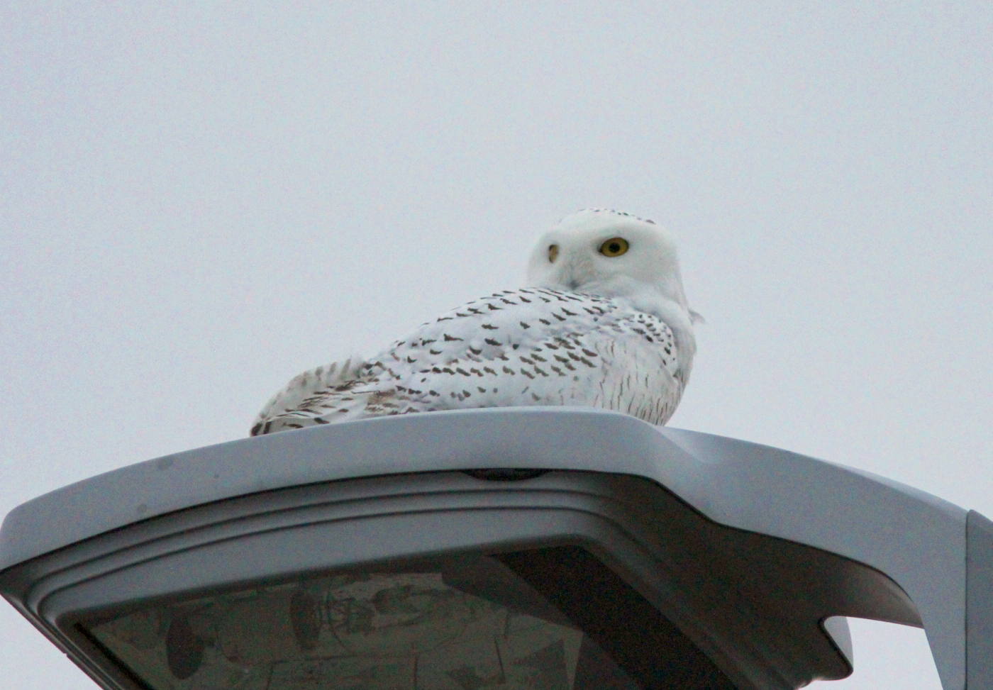 Snowy Owl, Gerald R. Ford Int'l Airport, Grand Rapids, MI, 5 December 2013